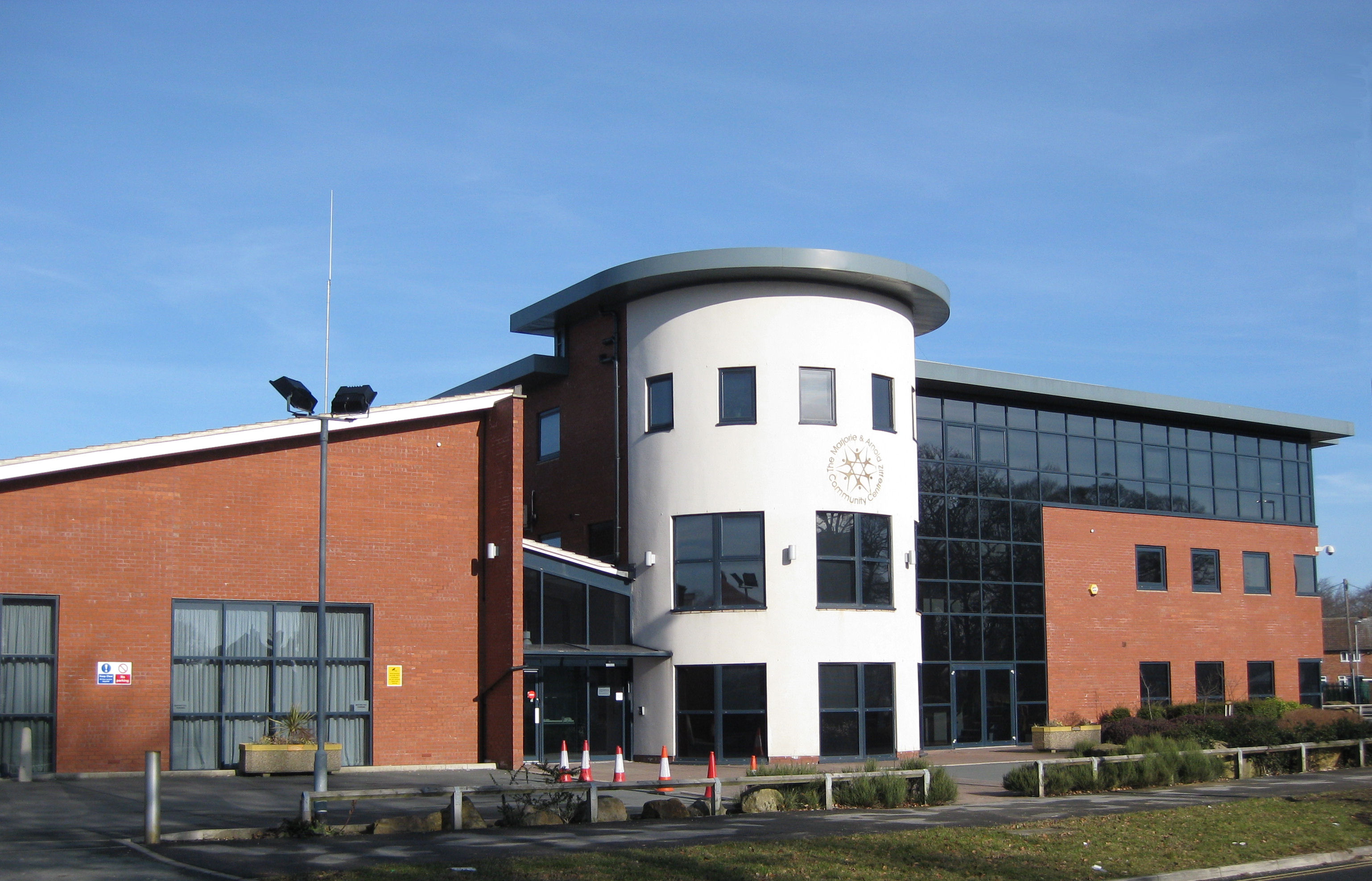 Marjorie and Arnold Ziff Community Centre, 311 Stonegate Road, Leeds, LS17 6AZ.